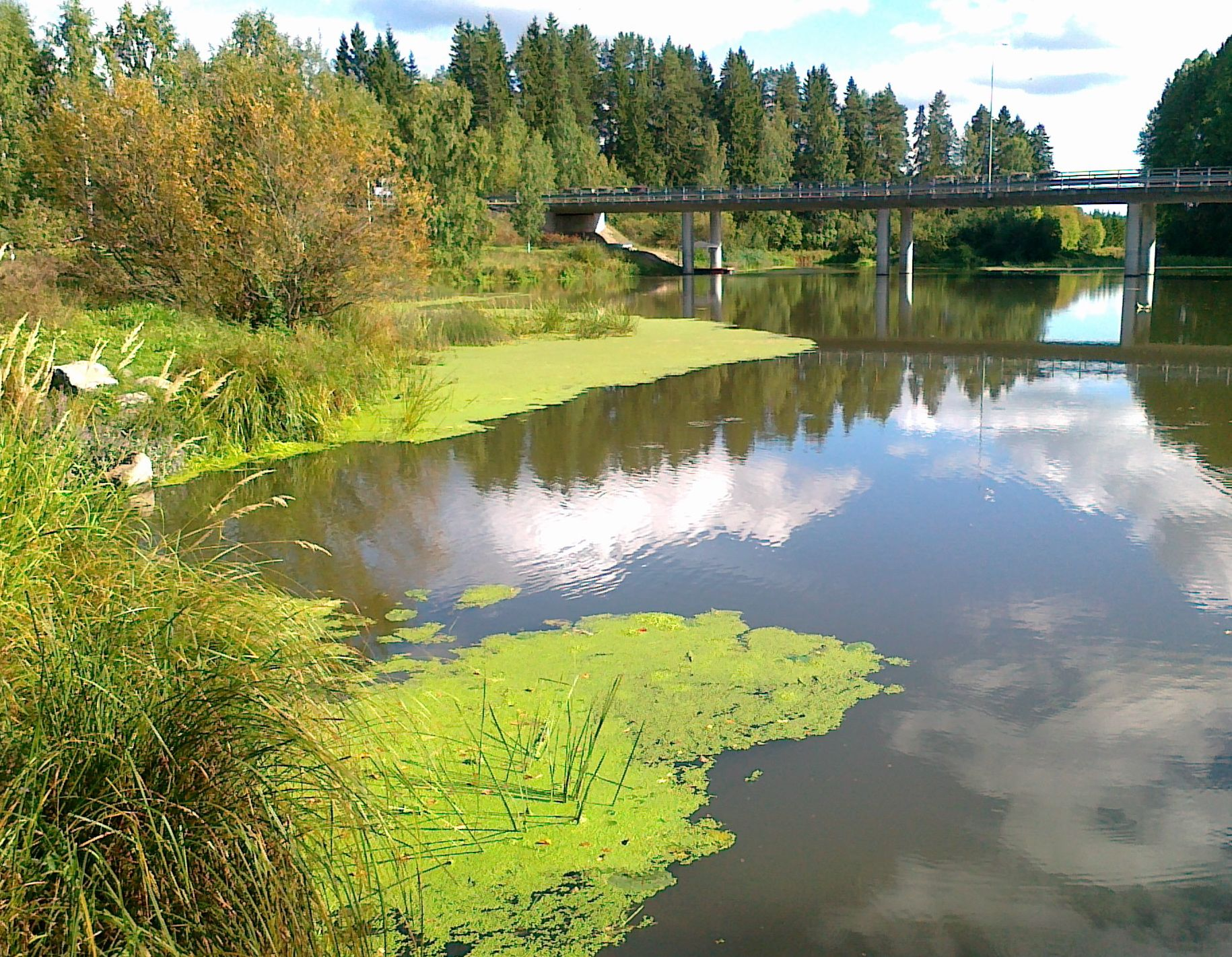 River Porvoonjoki in Pukkila, Finland, south of Naarkoski power plant